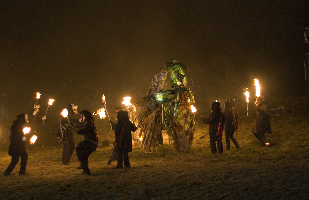 Fire-bearers circle figures of The Green Man fighting Jack Frost. Imbolc celebration in Marsden, West Yorkshire, February 2007.